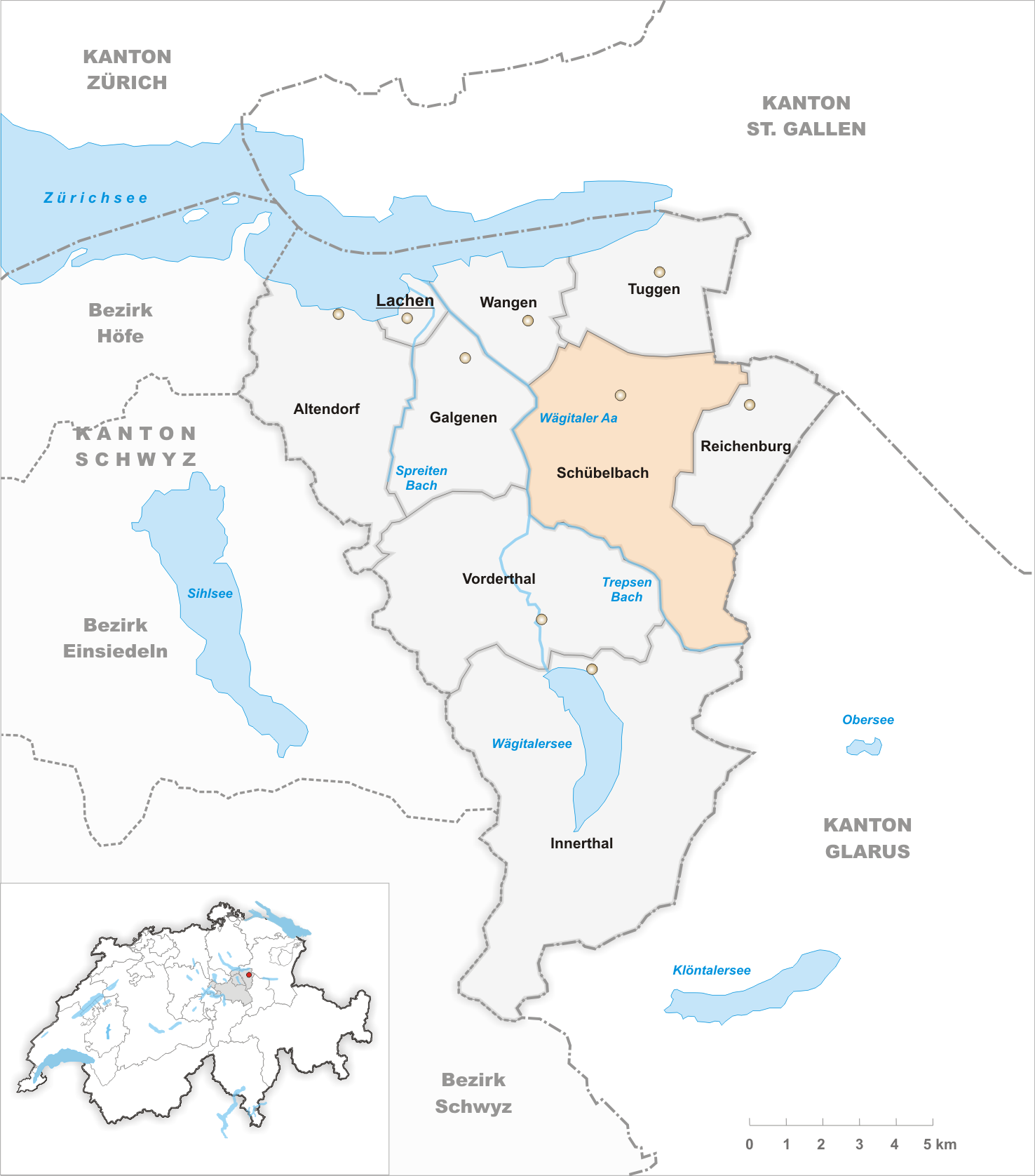 Municipality Schübelbach